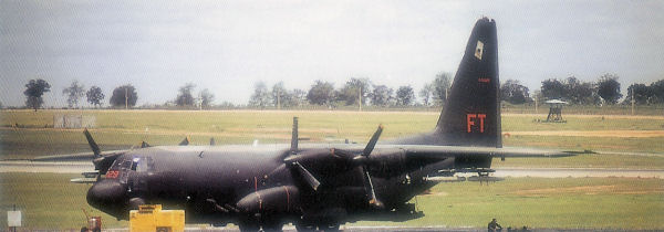 AC-130A Serial 55-0029 of the 16th Special Operations Squadron, Ubon Royal Thai Air Force Base, May 1974 Source